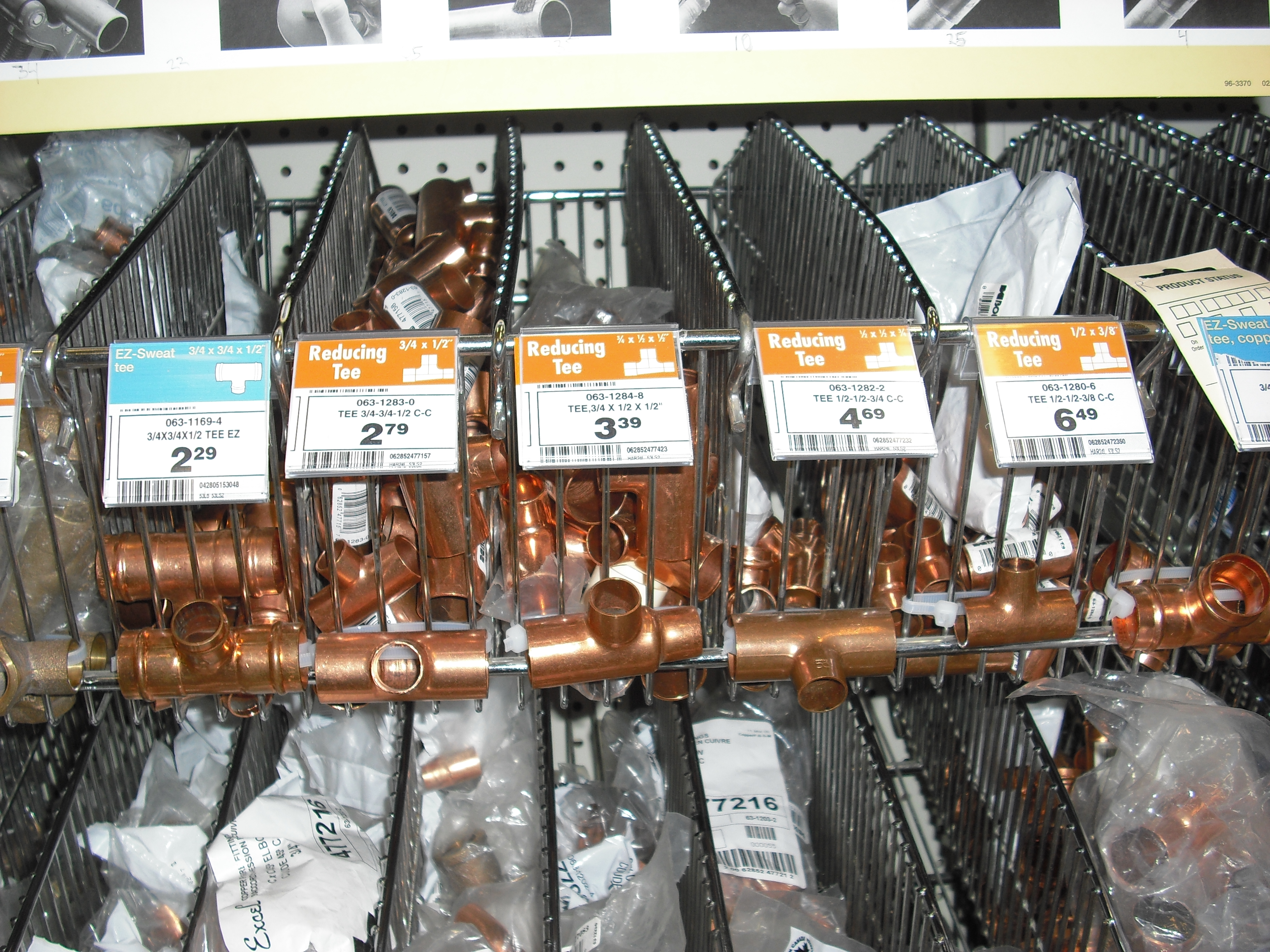 I Myke waddy took this photo. Canada Myke Waddy the creator of this work, hereby releases it into the public domain.